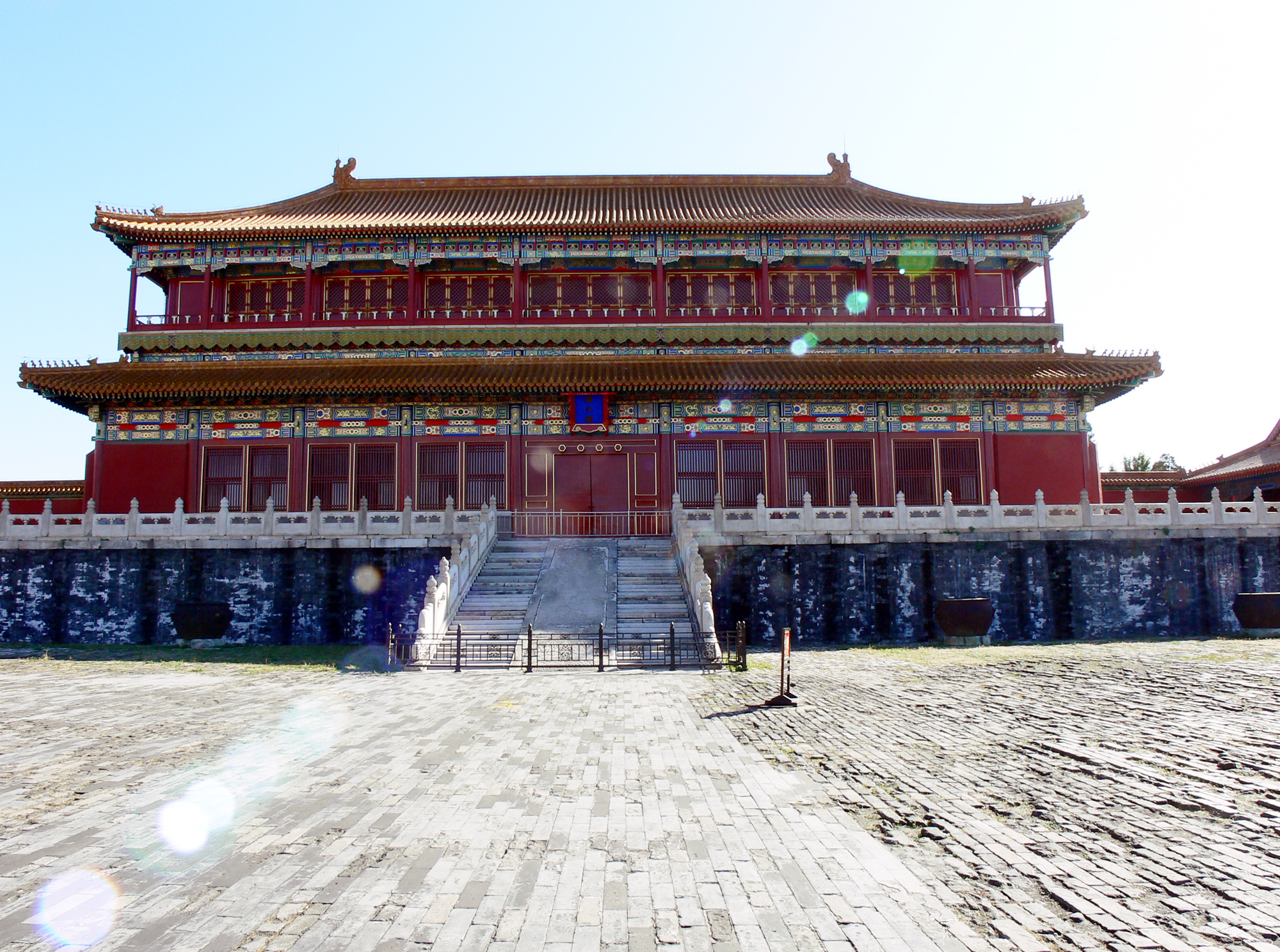 Ti Ren Ge-- Ti Ren building in Fobidden City